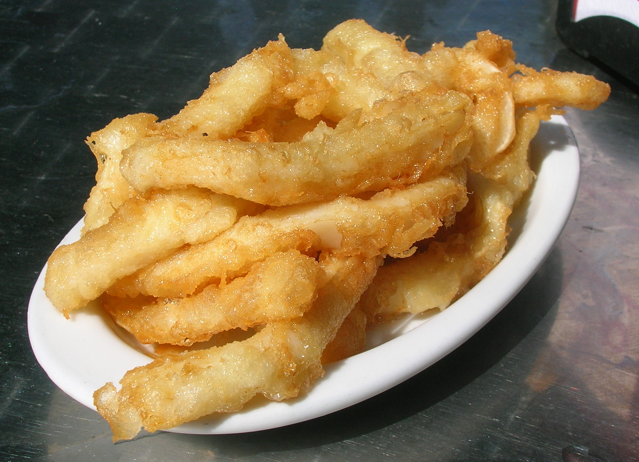 Dish of rabas similar to Fried calamari: slices of coated decapodiformes (they are supposed to be squids, but other similar species can be used). Served at a bar in Gorliz, Biscay, Basque Country, Spain.